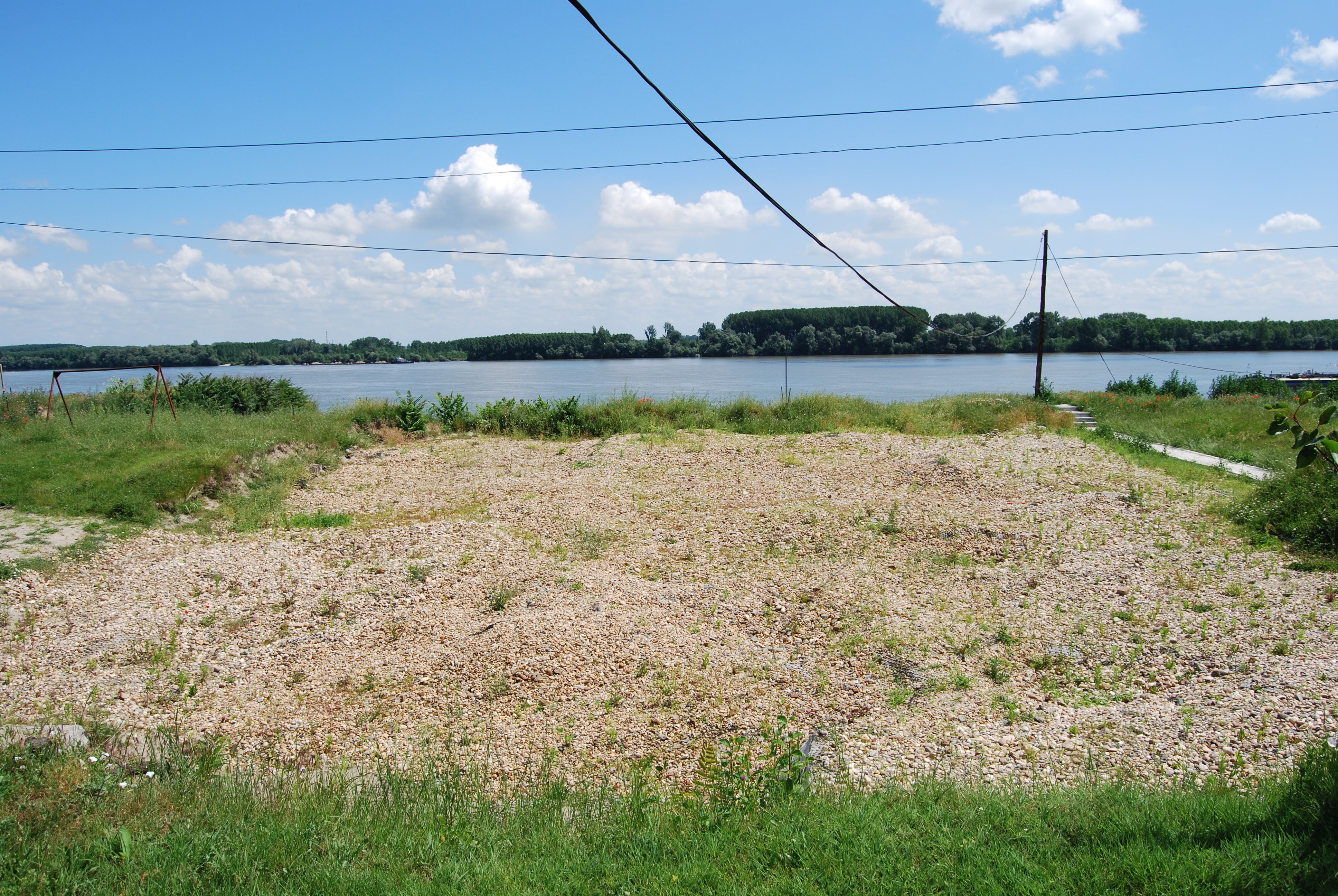 White Hill in Vinča, research space